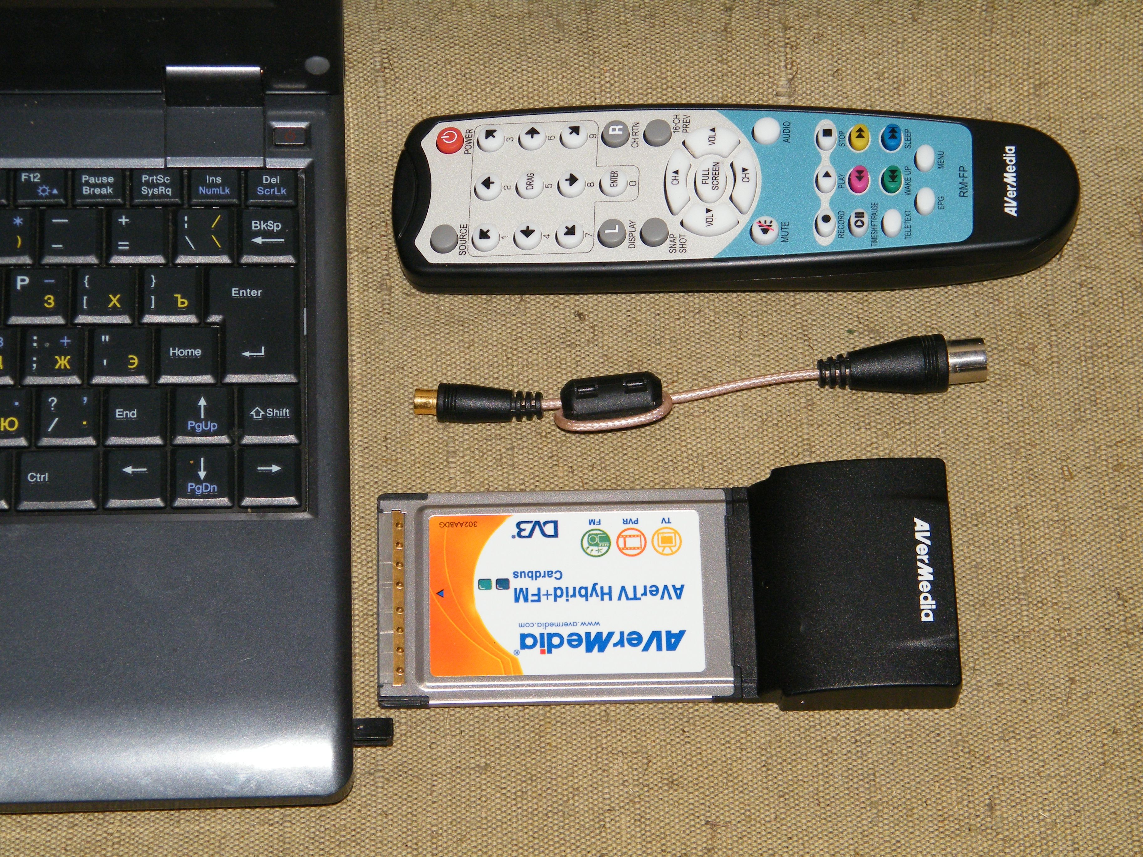 AVerMedia DVB television tuner card